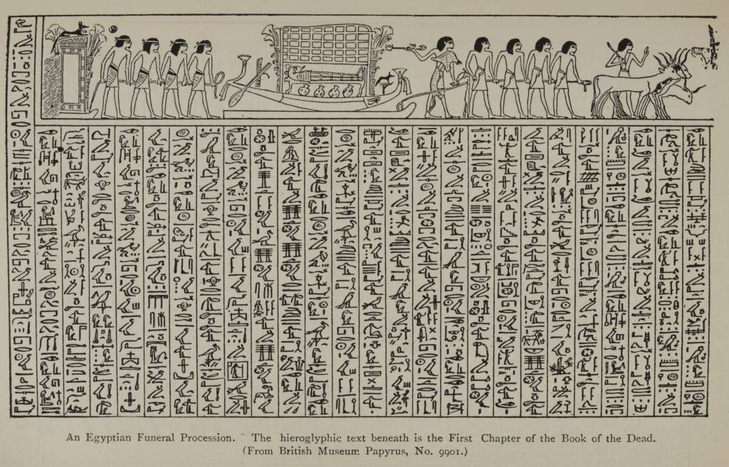 Drawing of an ancient Egyptian funeral procession, with hieroglyphic text beneath it.